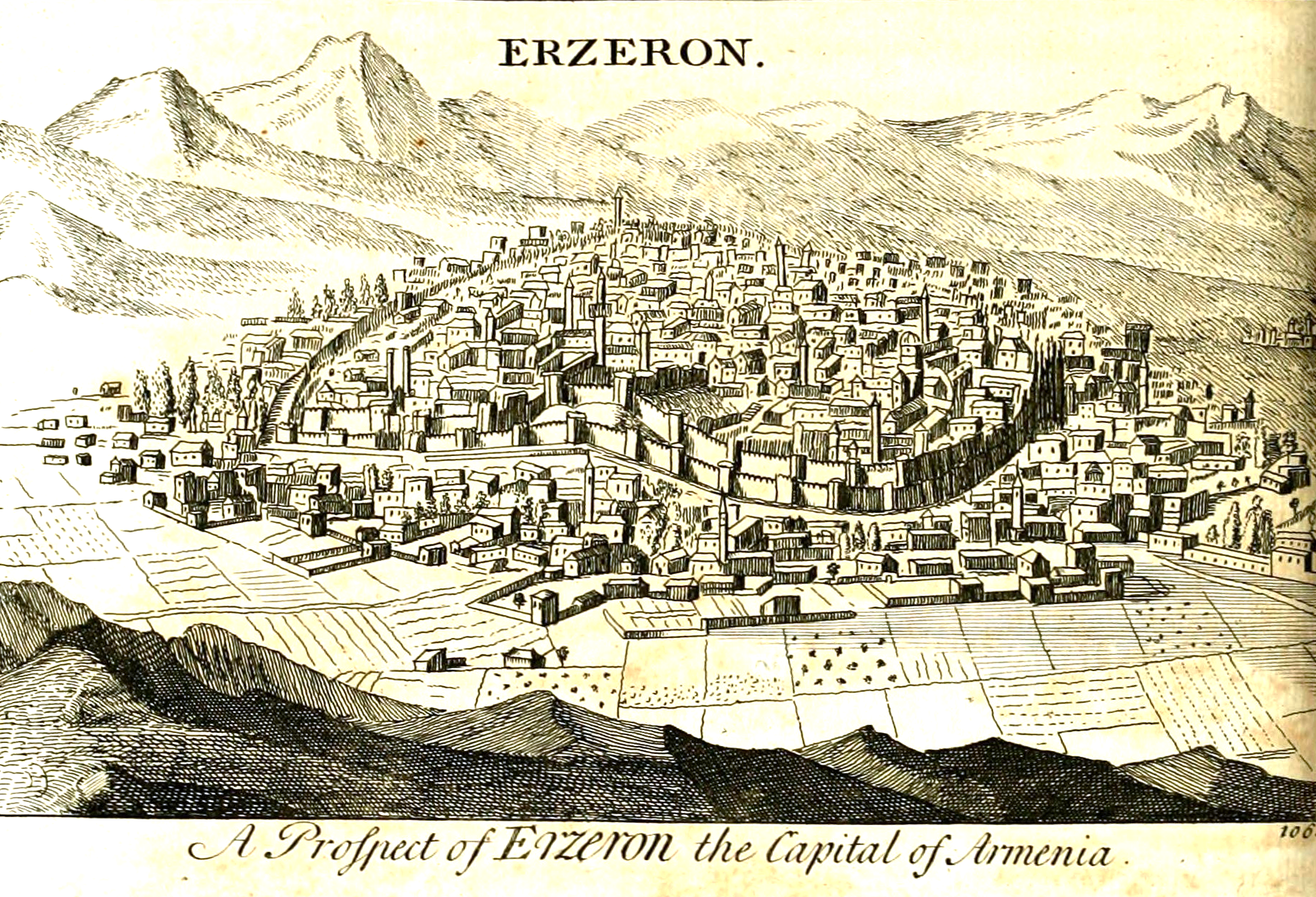 Erzurum